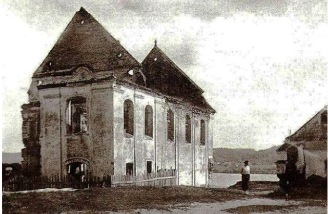 Former synagogue by Vilijampolė Bridge, Kaunas, Lithuania